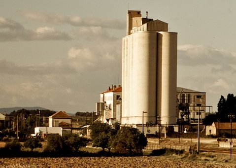 Alcains Train Station, of the Linha da Beira Baixa, in Portugal.